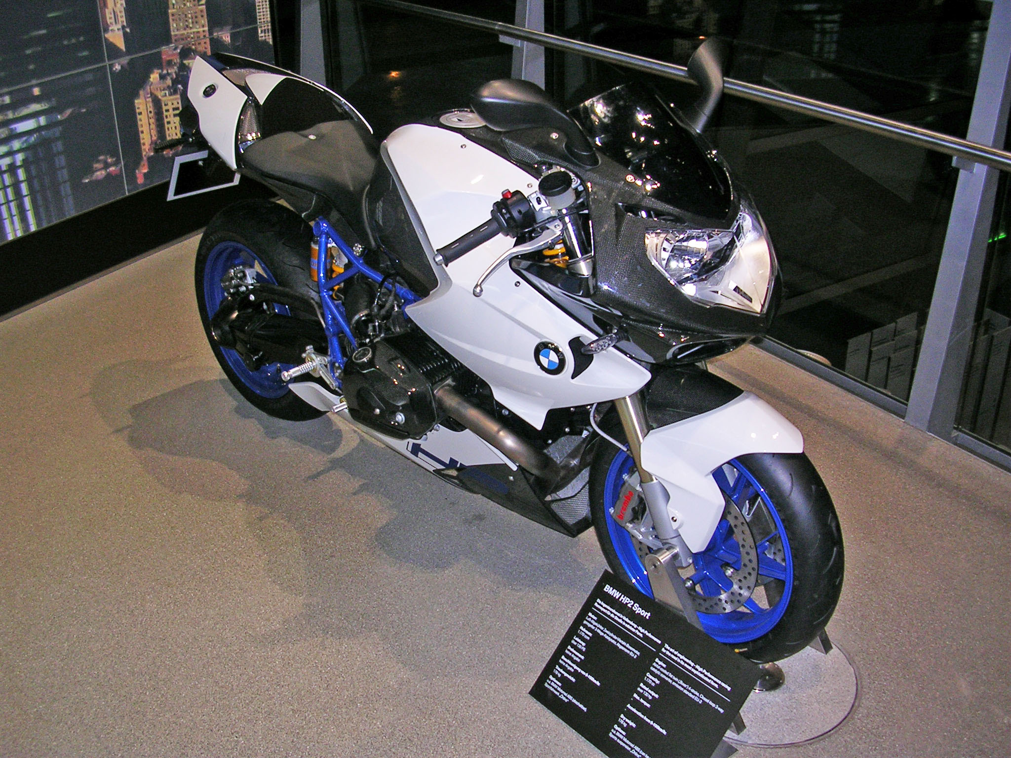 BMW HP2 Sport motorcycle. BMW Welt, Munich, 2008.